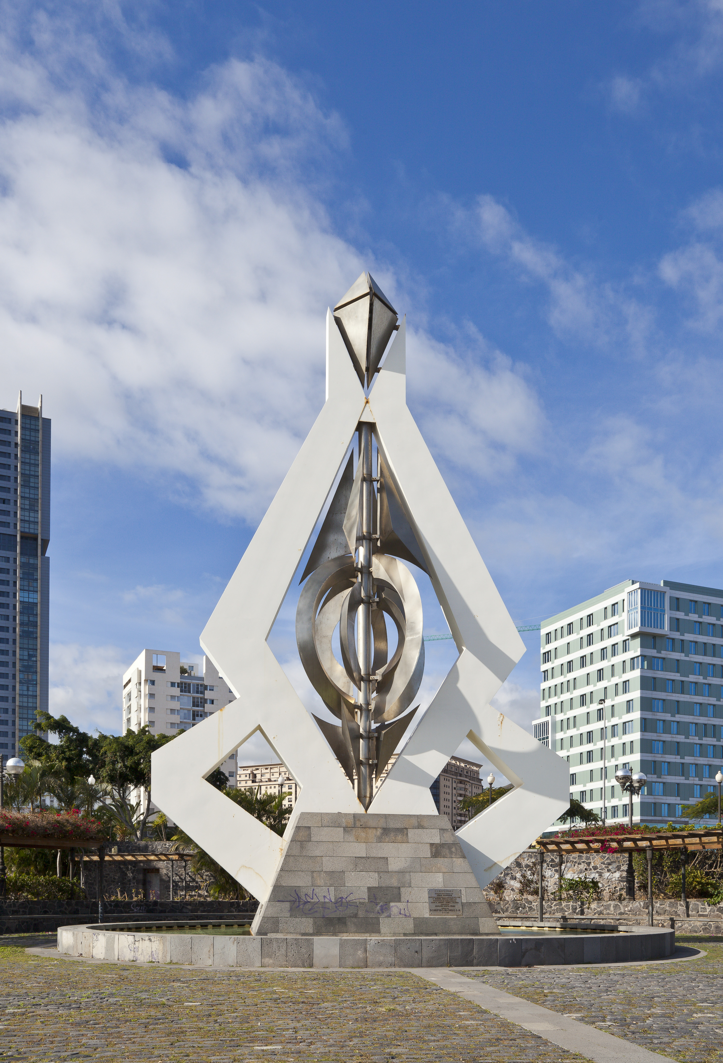 Portable sculpture of César Manrique, Santa Cruz de Tenerife, Spain